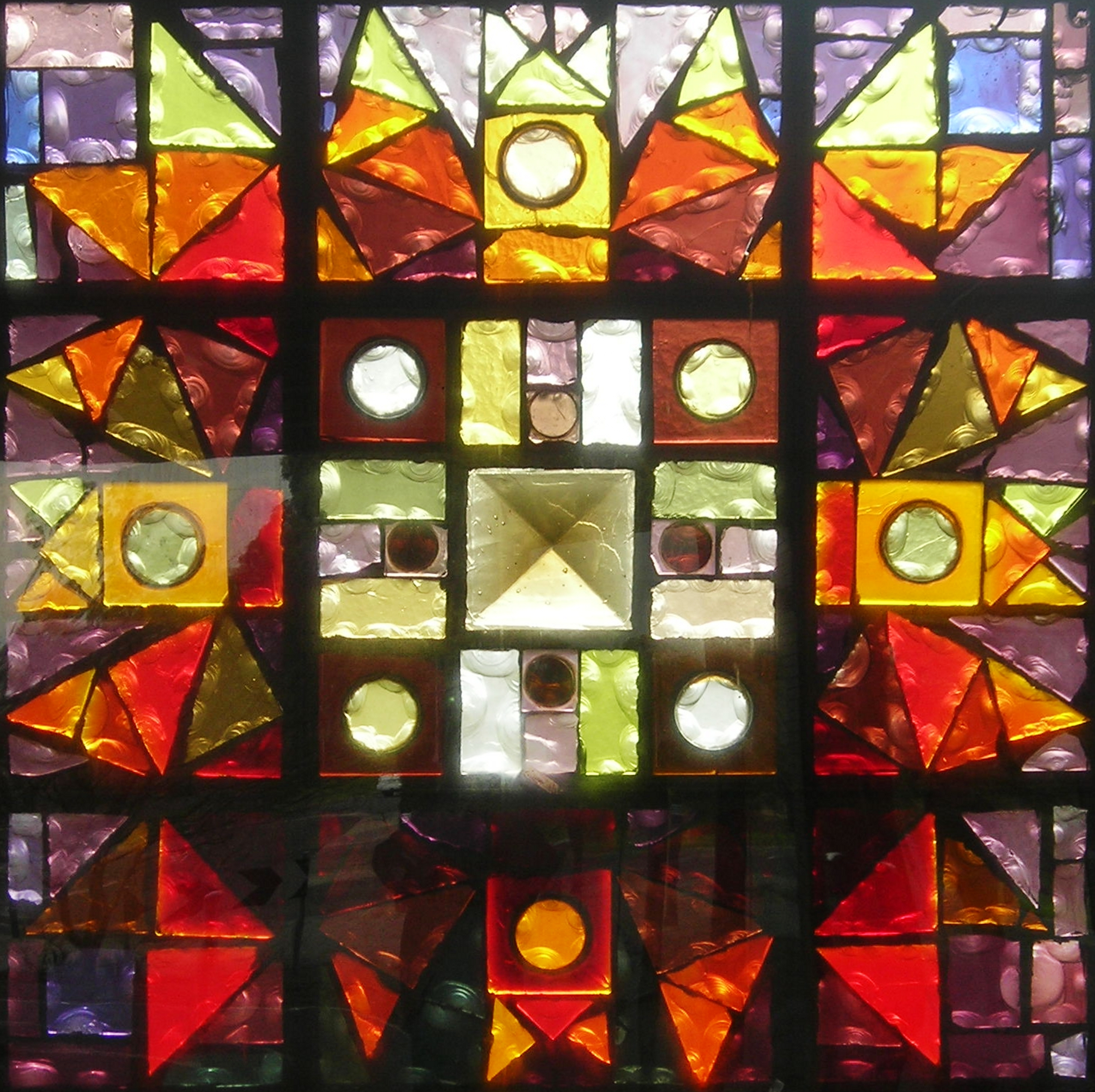 Glass panel The Four Seasons (1978) by Leonard French at La Trobe University Sculpture Park in Melbourne/Australia